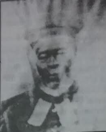 Rev'd Peter Hall digitised photo from the 19th century. Unknown photographer.